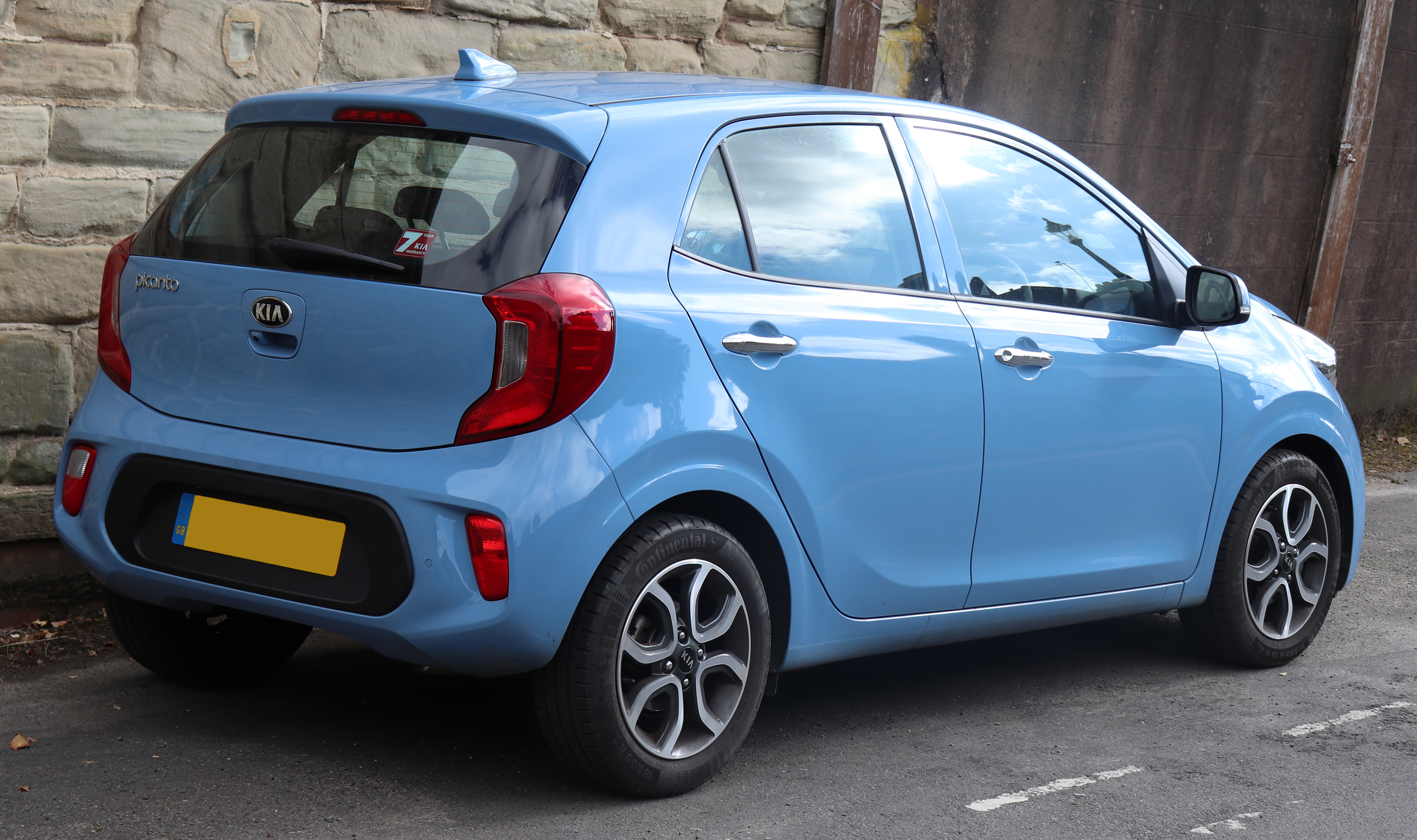 2018 Kia Picanto 3 Automatic 1.2 Rear Taken in Warwick